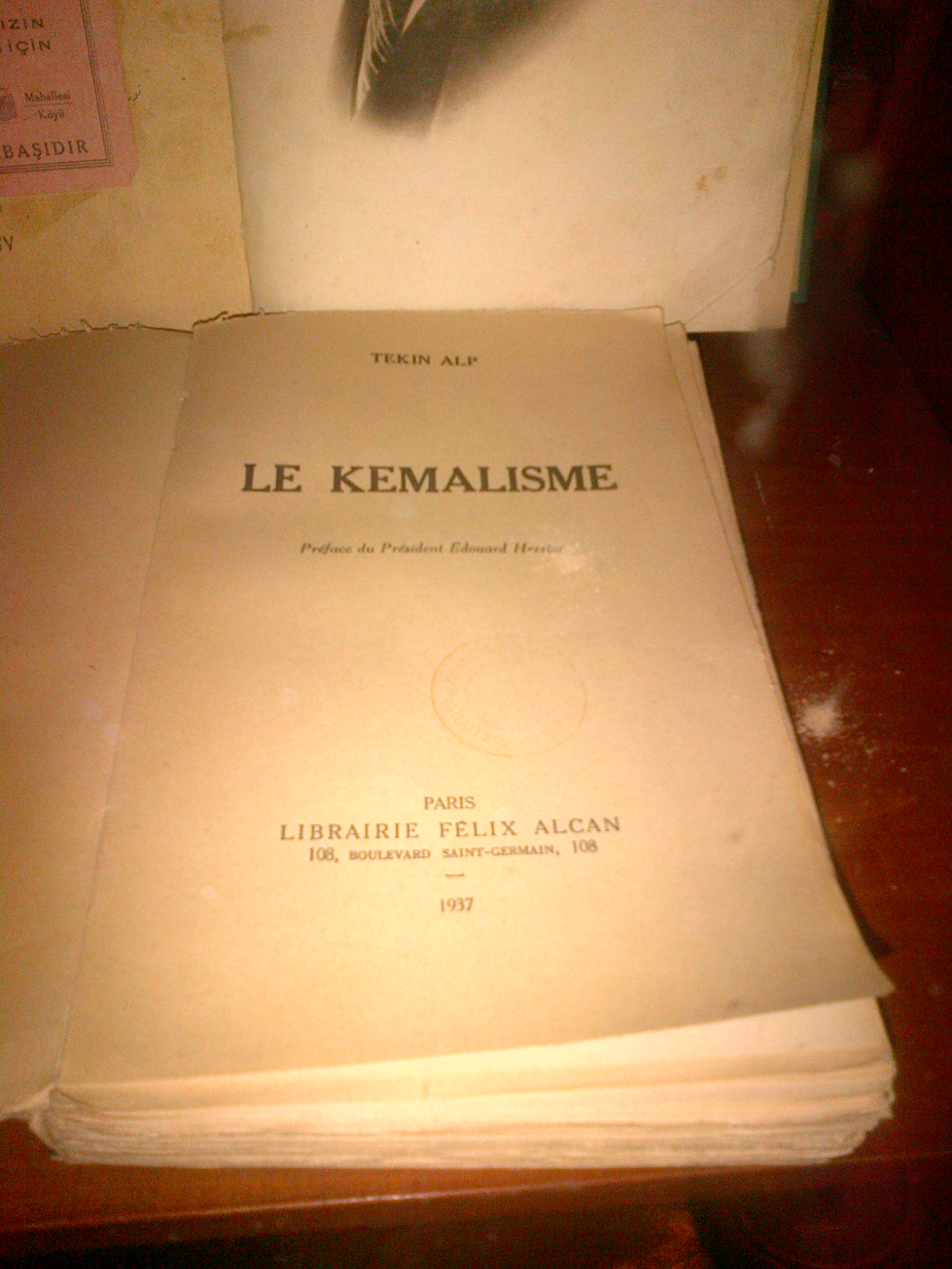 Cover of the book "Le Kemalisme" by Tekin Alp (Munis Tekinalp, 1937).